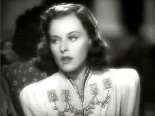 Cropped screenshot of Paulette Goddard from the trailer for the film Dramatic School